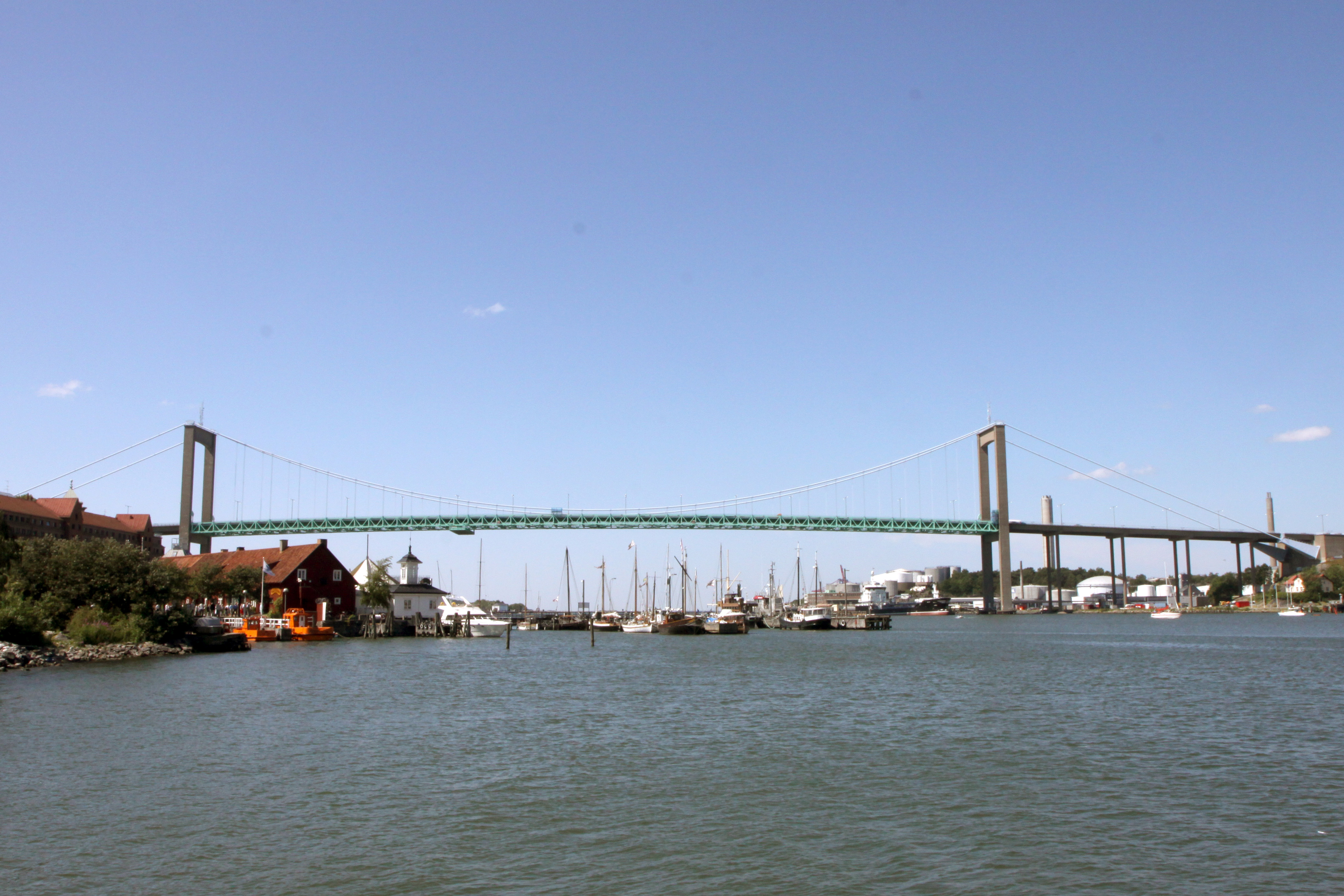 Älvsborgsbron in Gothenburg, Sweden